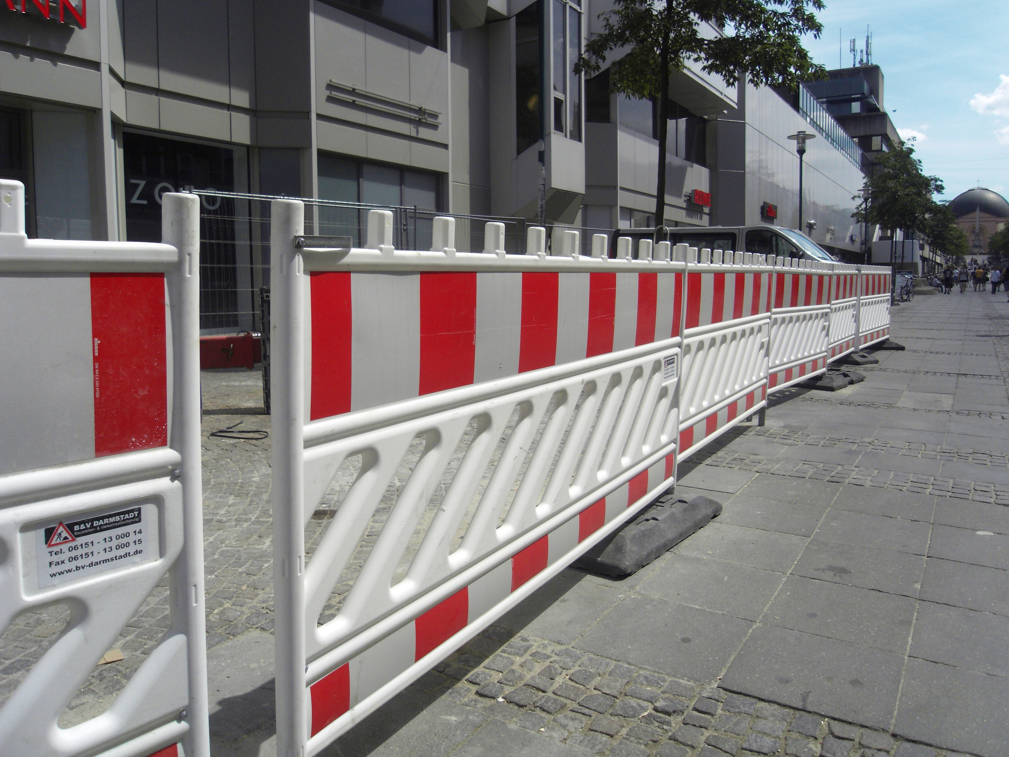 Construction site security